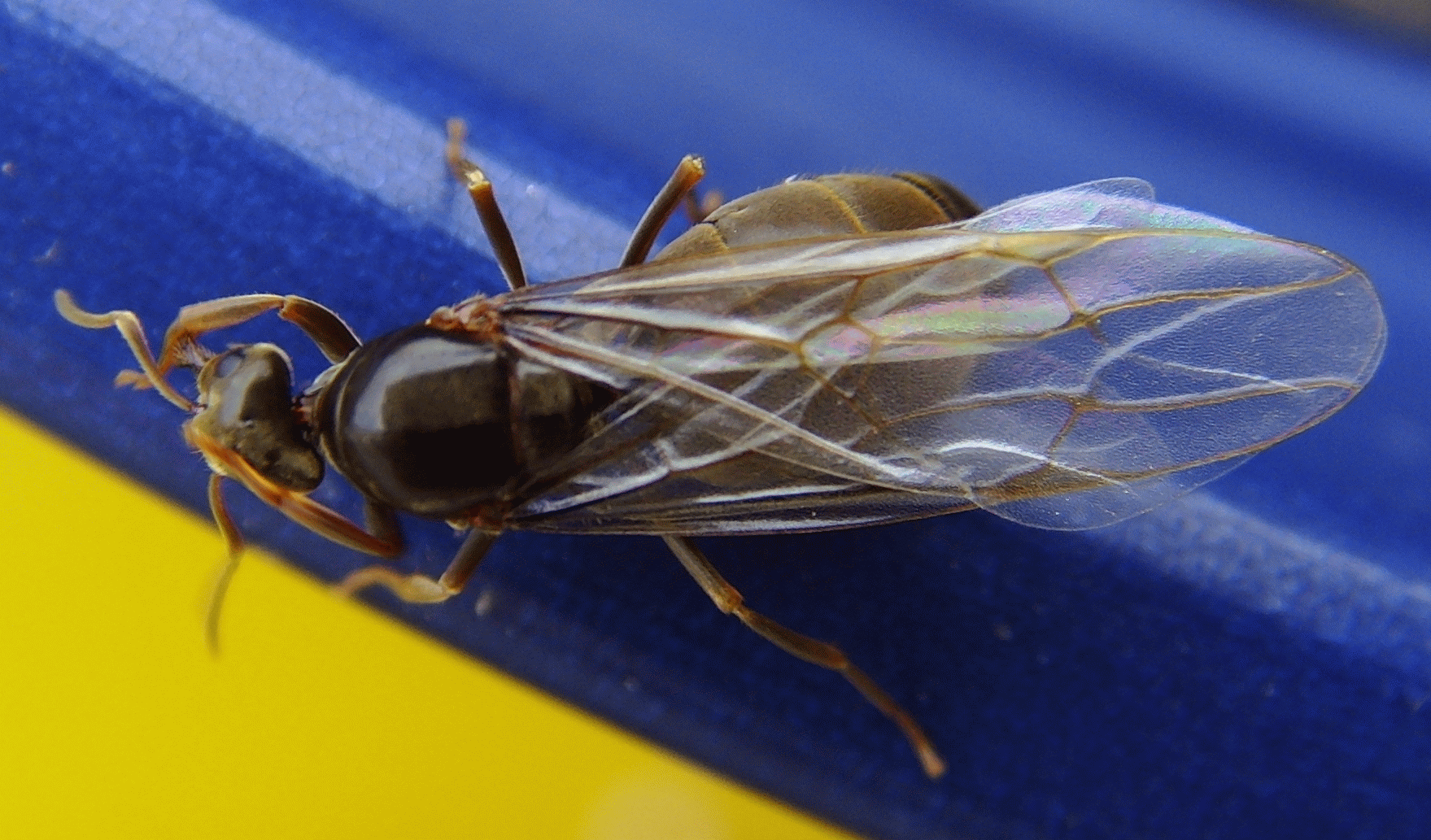 a Lasius niger Queen is cleaning herself.